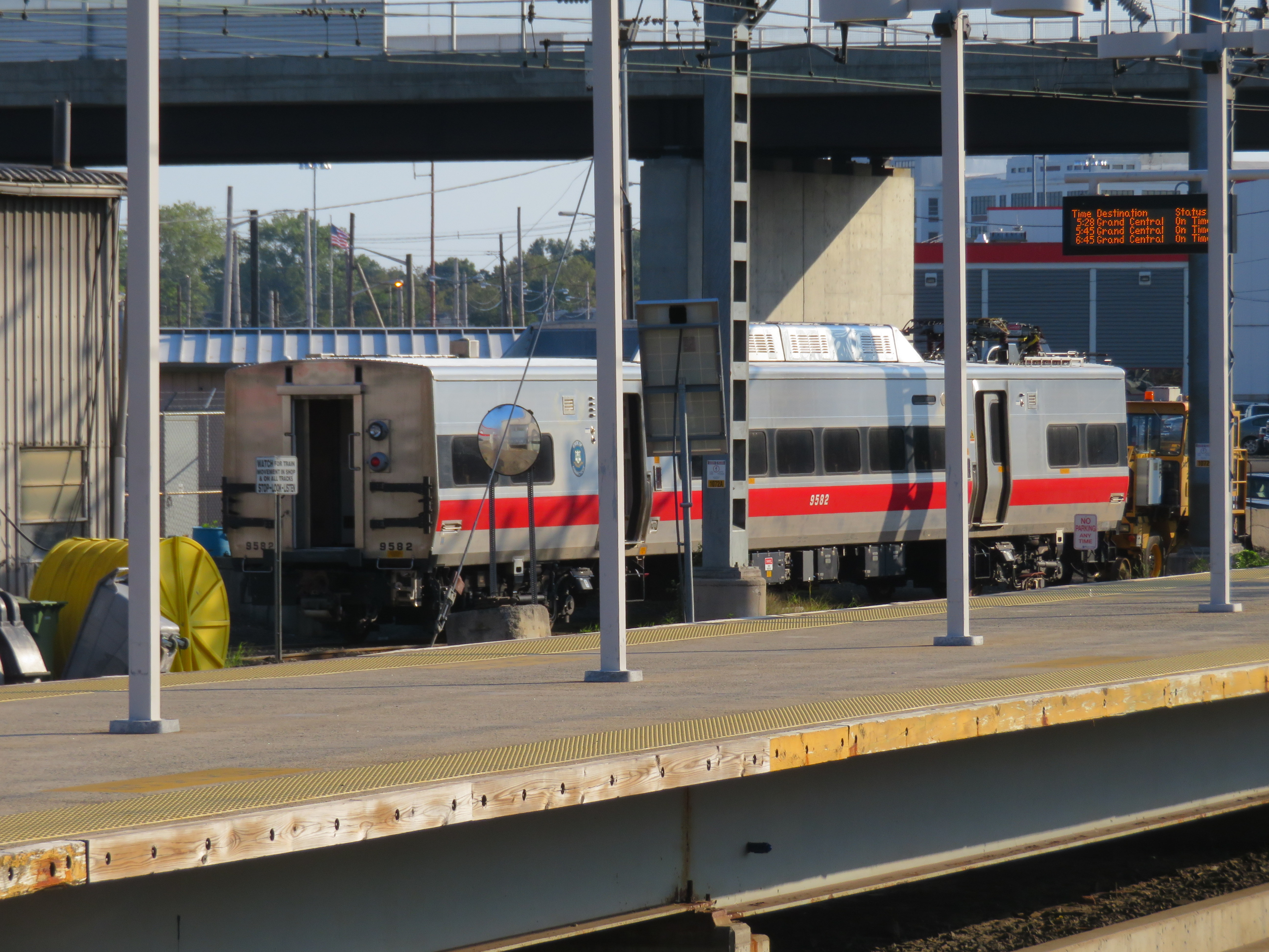 An unpowered M8 single car seen near New Haven Union Station in September 2018